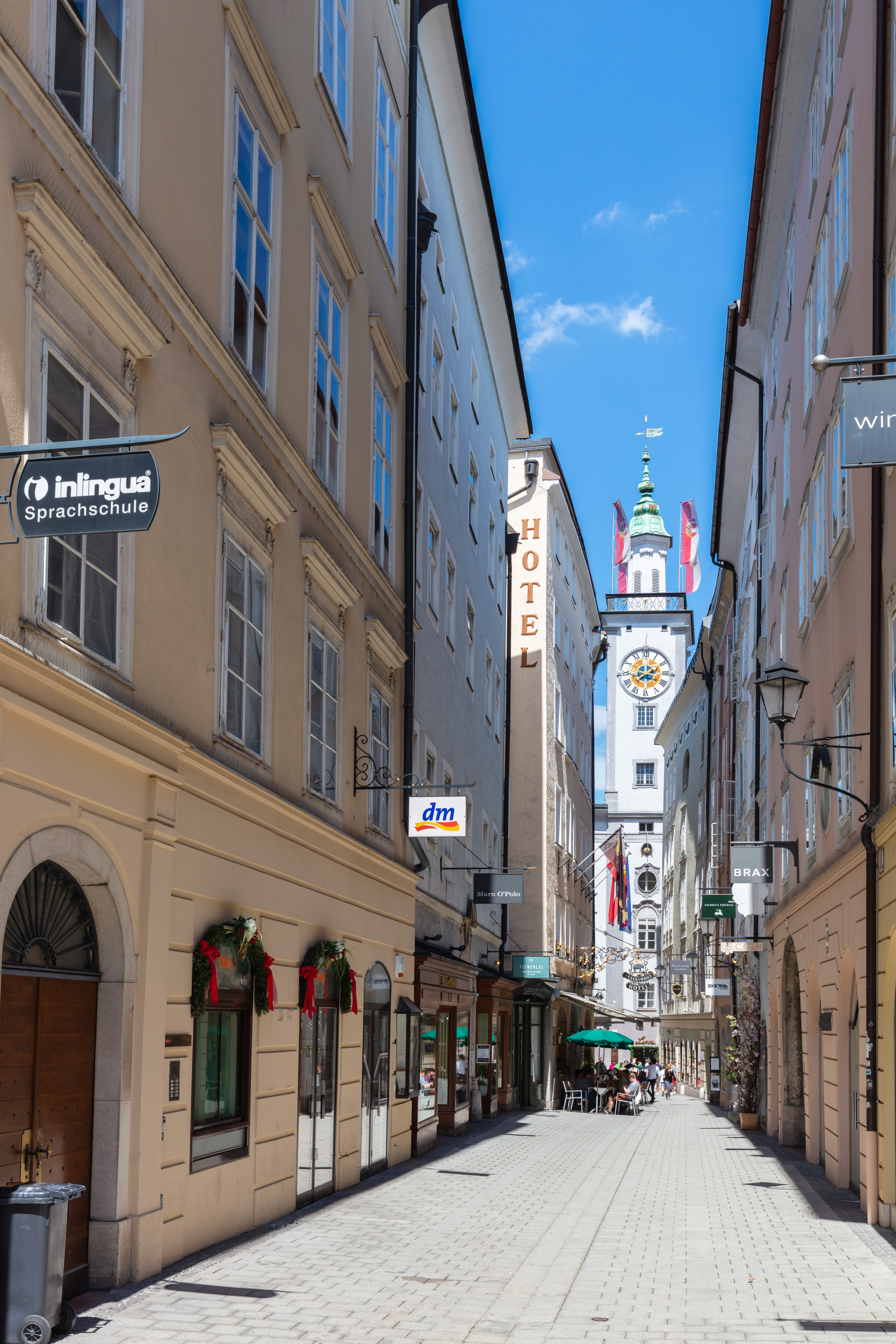 Sigmund-Haffner Str., Salzburg, Austria